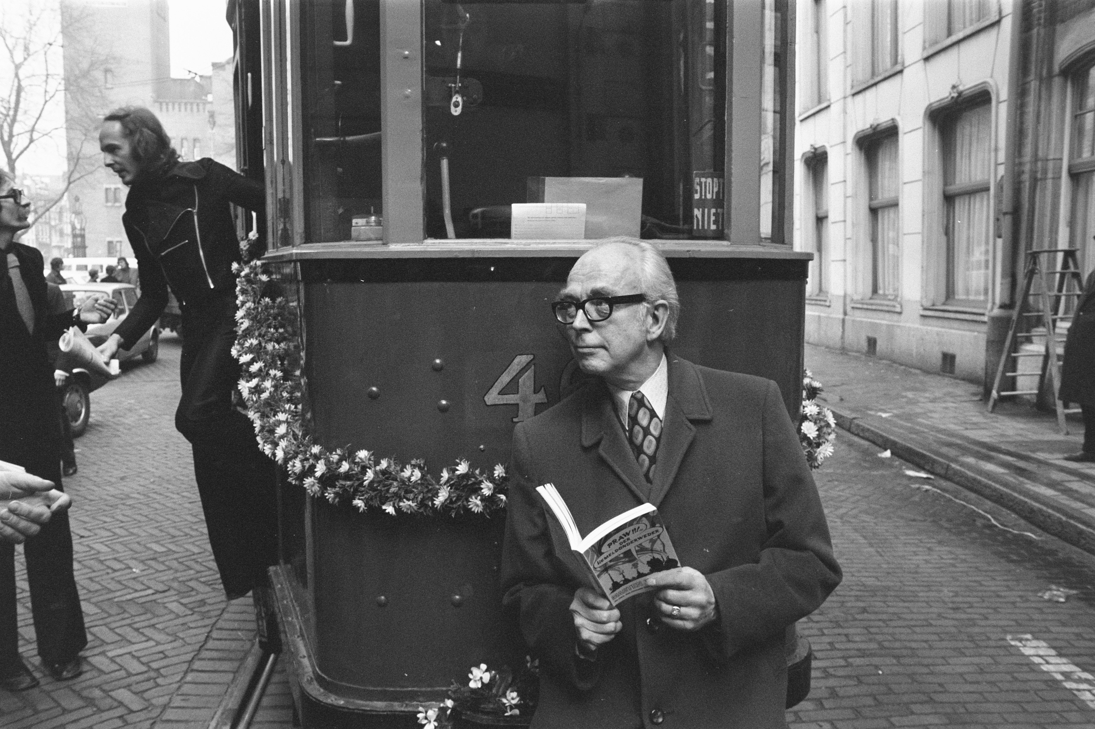 Marten Toonder (1972) before the presentation of a new book (Amsterdam, 22 februari 1972)